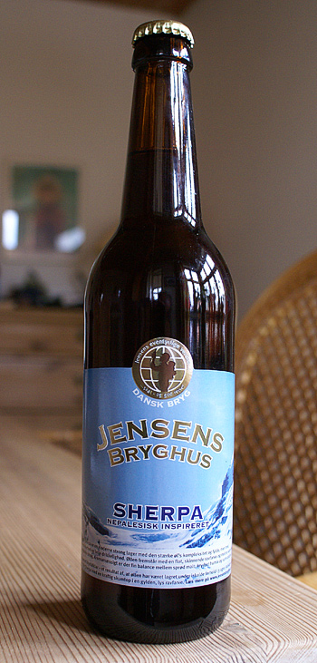 Sherpa, a Nepalese inspired Beer from Jensens Bryghus, Juelsminde, Denmark